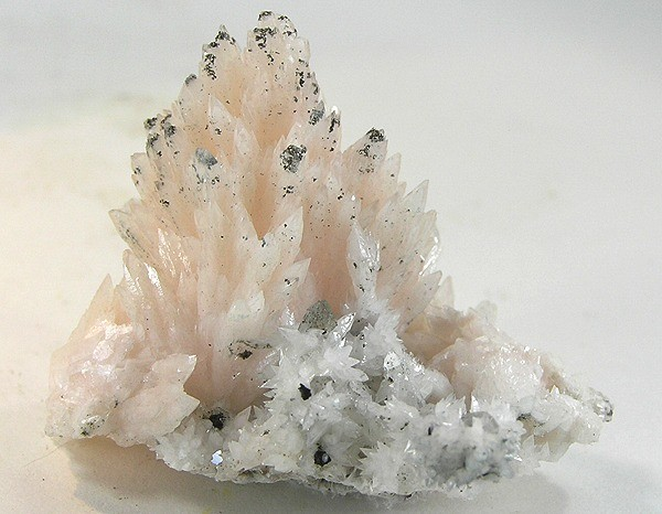 Calcite, Quartz, Marcasite Locality: San Antonio Mine (San Antonio el Grande Mine), East Camp, Santa Eulalia District, Municipio de Aquiles Serdán, Chihuahua, Mexico (Locality at ) Size: 4.8 x 3.8 x 3.1 cm. A beautiful combo specimen from Santa Eulalia, with a burst of faintly peach-colored calcite crystals rising from a matrix of spiky bursts of white quartz. Speckling the calcites are little marcasites.